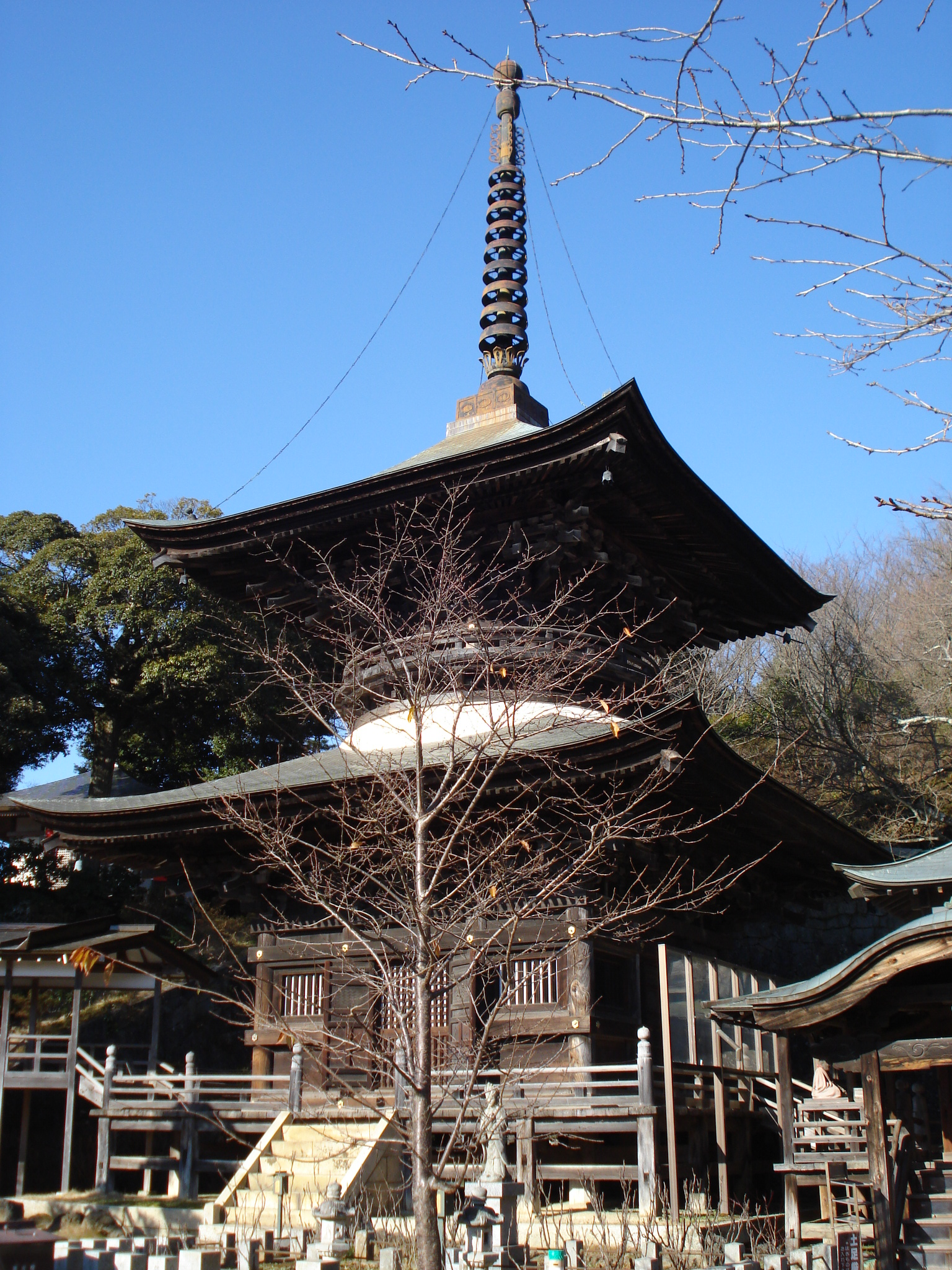 Rakuhoji Temple (Amabiki Kannon) Tahoto TowerSakuragawa-city, Ibaraki